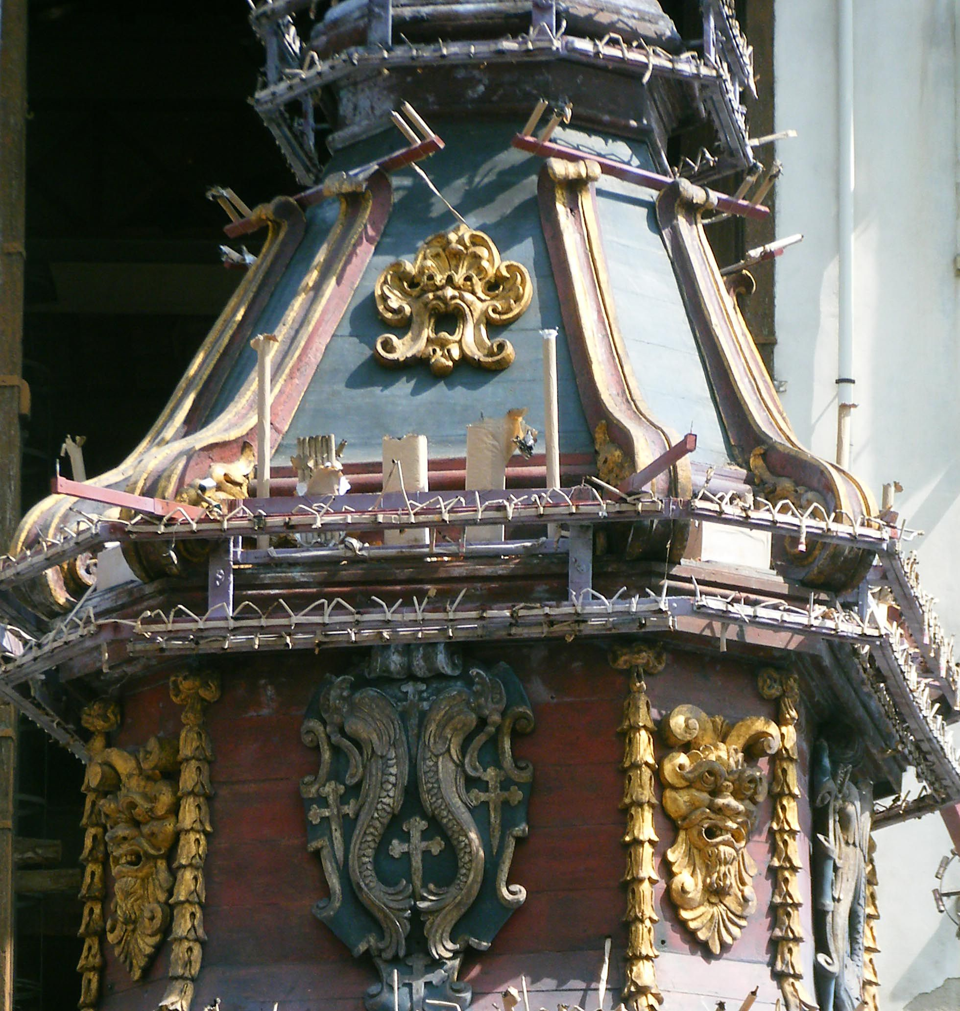 Scoppio del Carro (Florence)